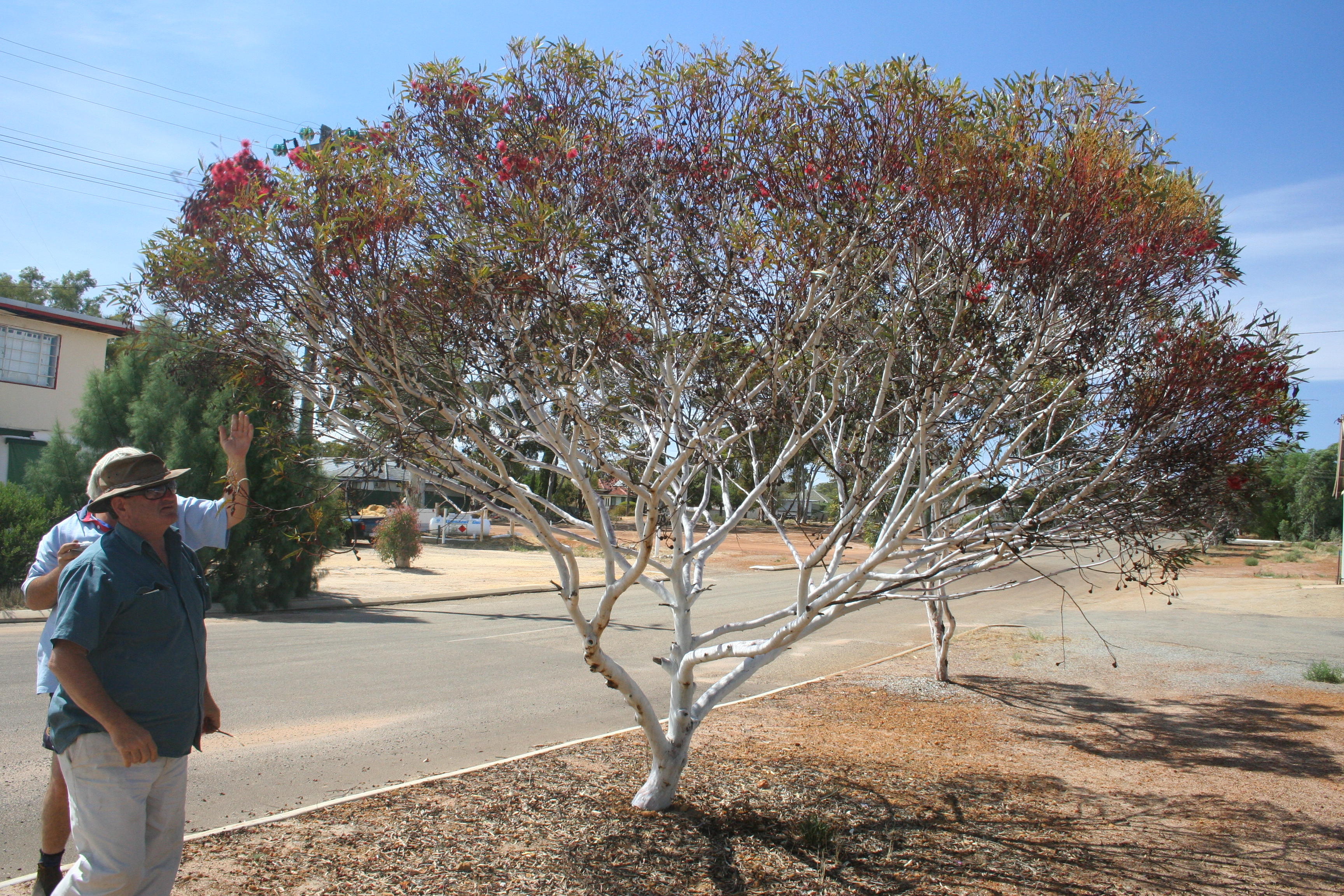 Eucalyptus erythronema var. marginata (habit) + George Lullfitz looking on